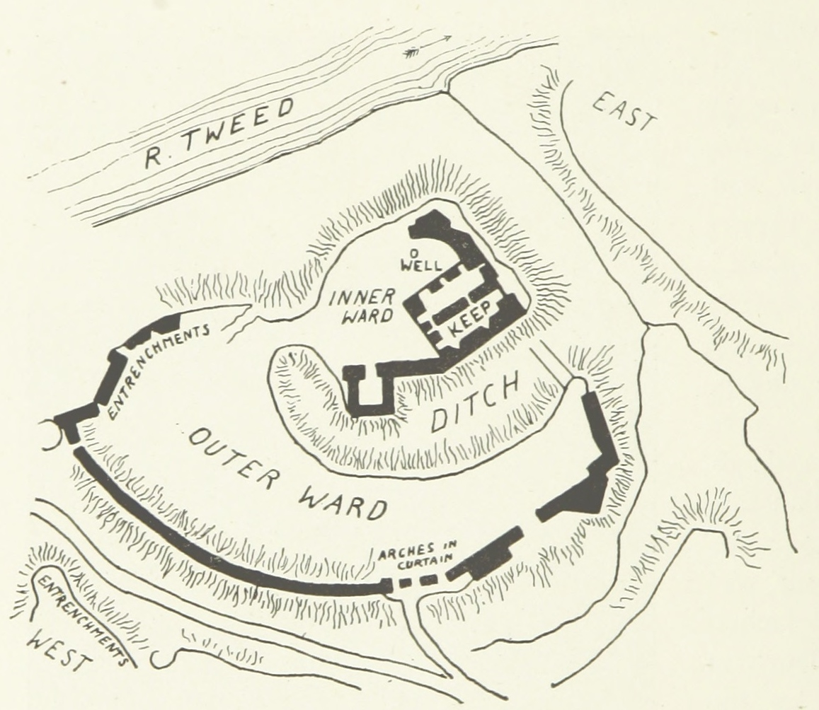 Image taken from: Title: "The Castles of England: their story and structure ... With ... illustrations and ... plans" Author: MACKENZIE, James Dixon - Sir, Bart Contributor: MACNAIRN, J. Shelfmark: "British Library HMNTS 10369.v.7." Volume: 02 Page: 464 Place of Publishing: London Date of Publishing: 1897 Publisher: W. Heinemann Issuance: monographic Identifier: 002322661 Note: The colours, contrast and appearance of these illustrations are unlikely to be true to life. They are derived from scanned images that have been enhanced for machine interpretation and have been altered from their originals. If you wish to purchase a high quality copy of the page that this image is drawn from, please order it here. Please note that you will need to enter details from the above list - such as the shelfmark, the page, the book's volume and so on - when filling out your order. Explore: Find this item in the British Library catalogue, 'Explore'. Open the page in the British Library's itemViewer (page: 464) Download the PDF for this book Click here to see all the illustrations in this book and click here to browse other illustrations published in books in the same year. Please click on the tags shown on the right-hand side for other ways to browse the illustrations.